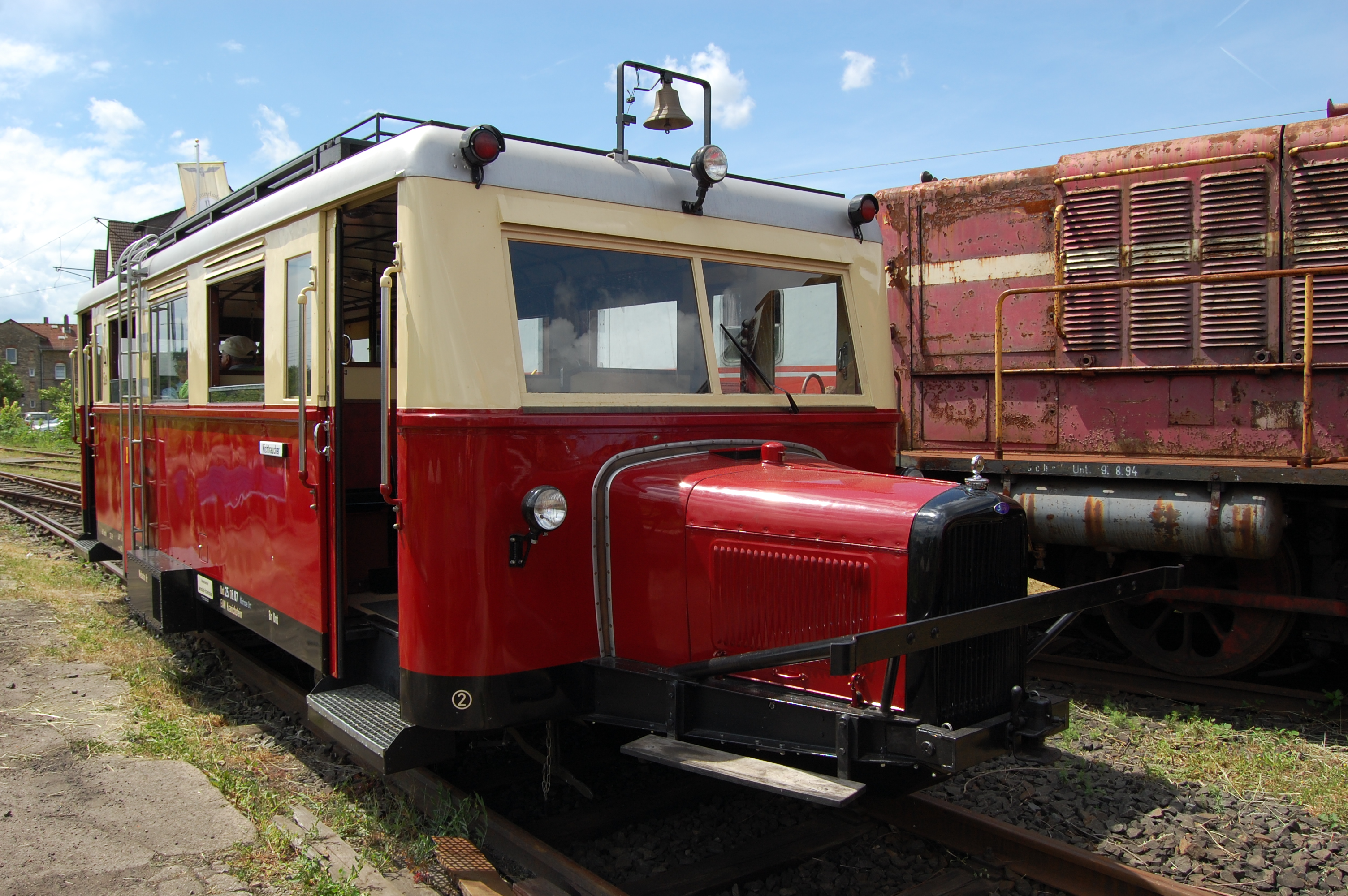 rail car T 141 of Waggonfabrik Wismar, Germany built in 1933